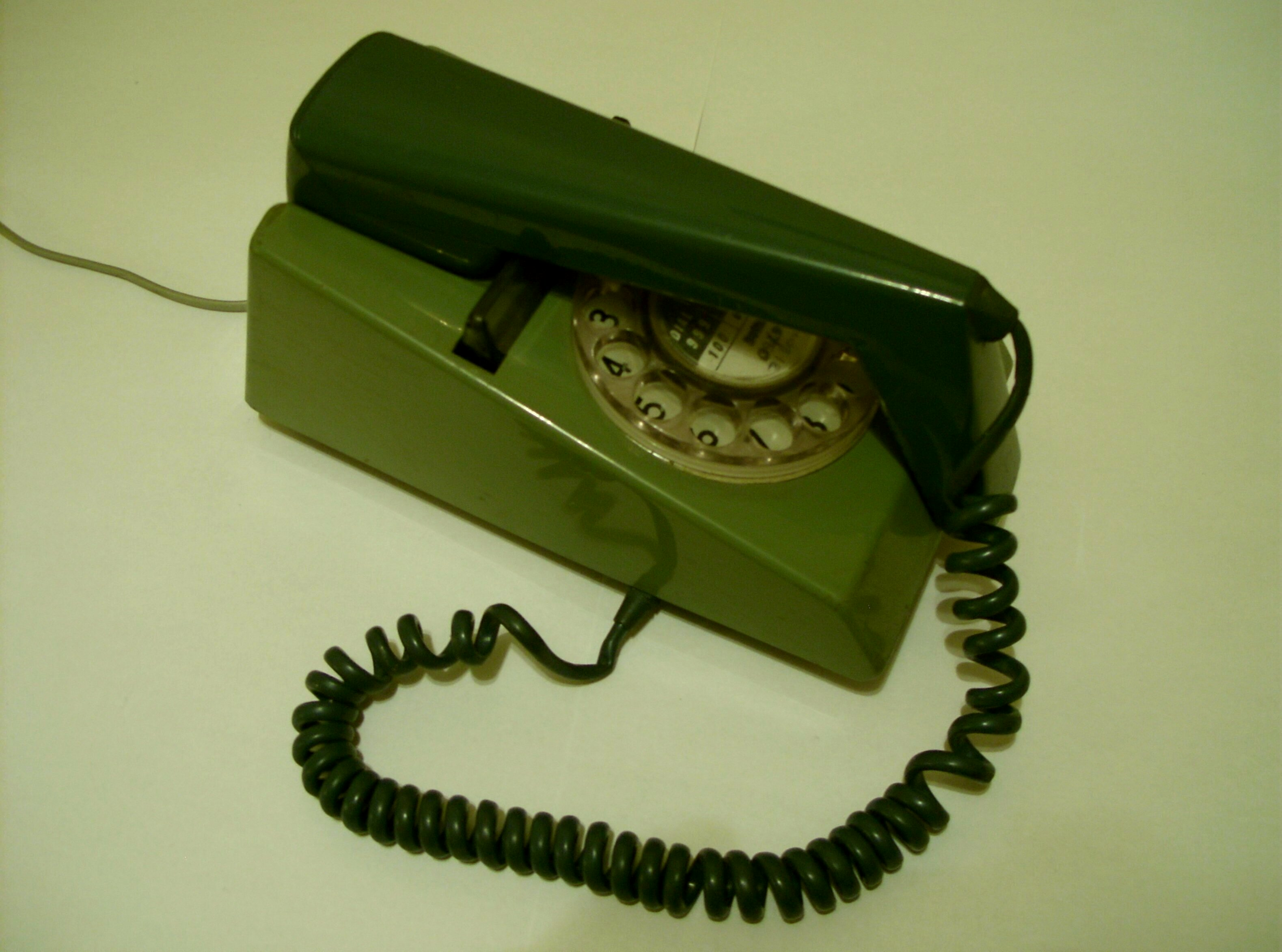 GPO Telephone 722 On Hook